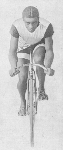 Major Taylor, US-american cyclist